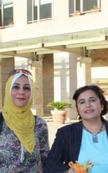 photo of Prof. Maysoon Al-Nahar and Kheria Al-Kukhun